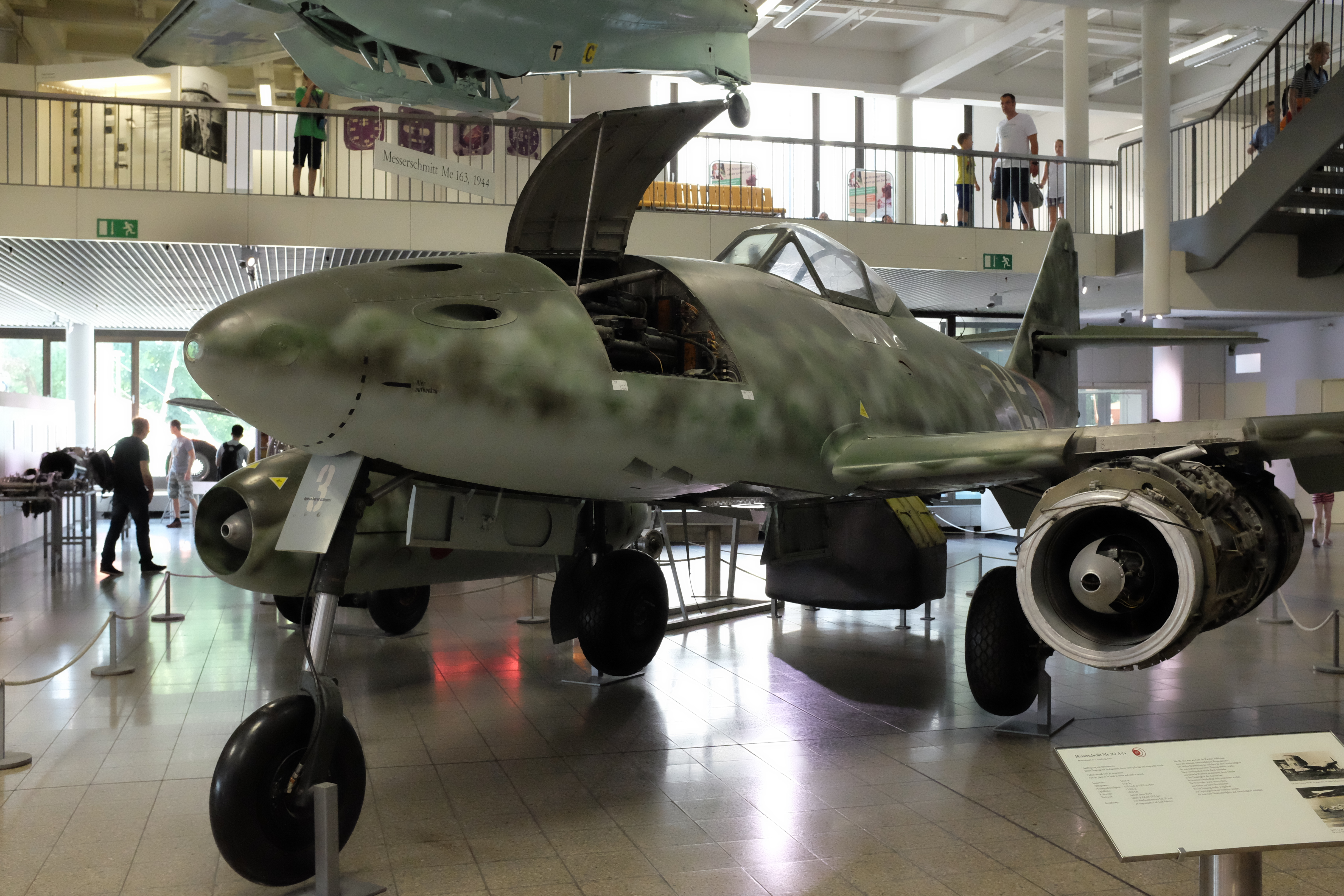 Messerschmitt 262 at the Deutsches Museum. München